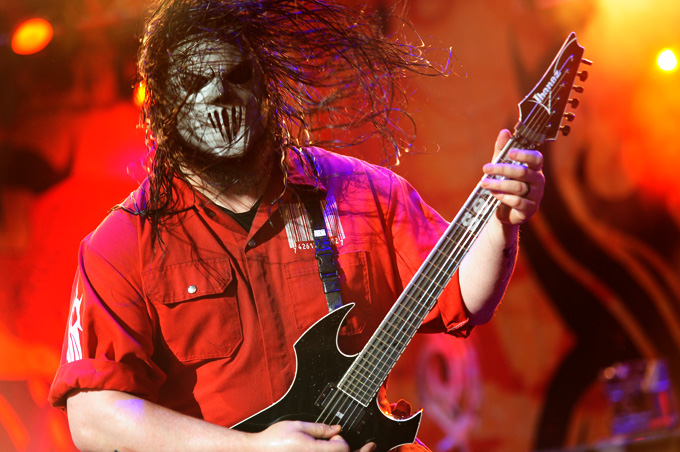 Soundwave Festival 2012 Do Not Publish